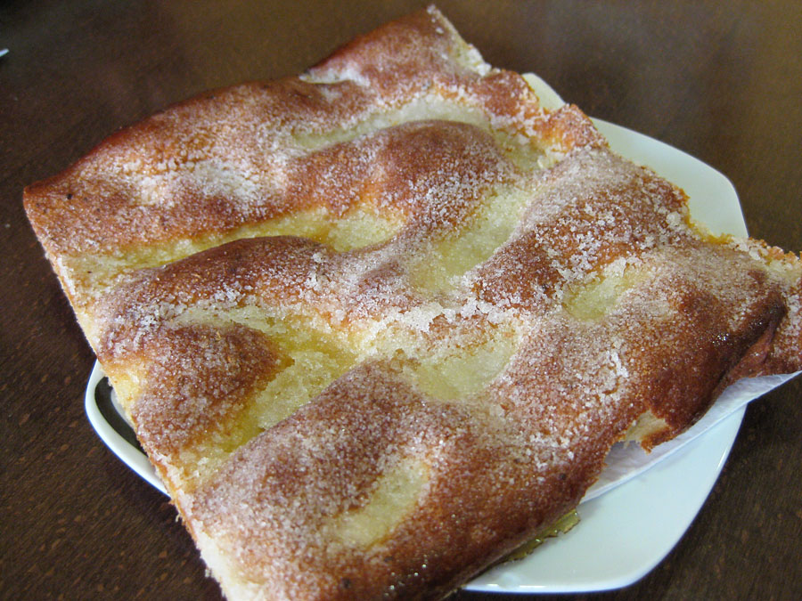 Coca d'anís, d'Altafulla, (Tarragonès, Catalunya) tot i que segueix la mateixa recepta que les d'Osona. Aniseed coca (pastry) from Altafulla (Catalonia), also typical in central Catalonia.